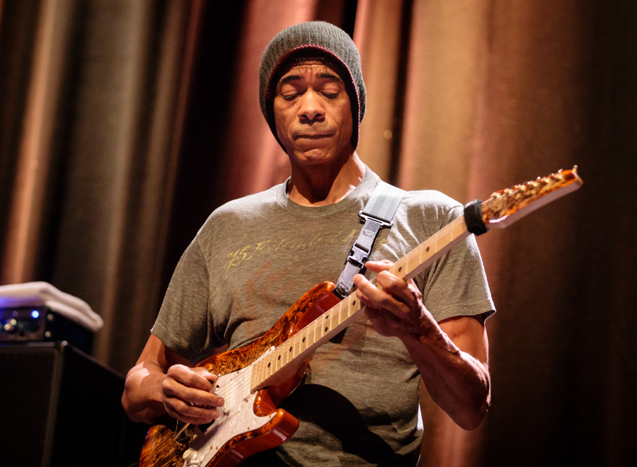 Greg Howe with Simon Phillips at the stage at Cosmopolite in Soria Moria. The concert took place on 16. November 2017 in Oslo as part of Cosmopolite's 25 year jubilee week. Lineup: Simon Phillips (drums), Greg Howe (guitar), Ernest Tibbs (bass guitar) and Otmaro Ruiz (keyboard).